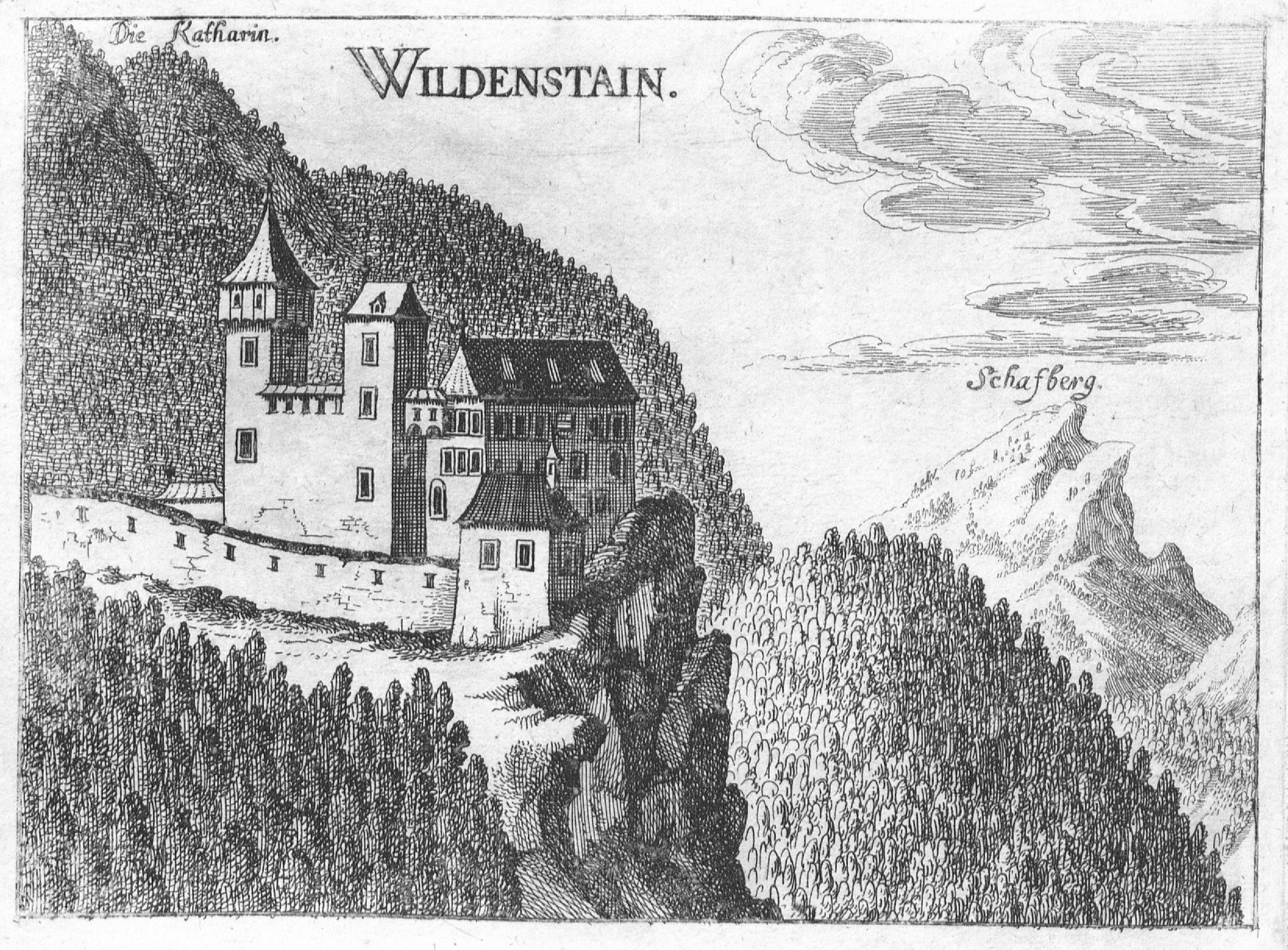 Engraving, view of Wildenstein castle, Upper Austria